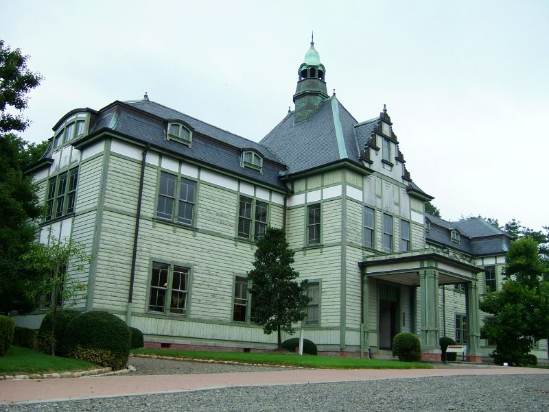 Originally from Tokyo Built in 1915 From the Meiji Mura village museum, Japan.